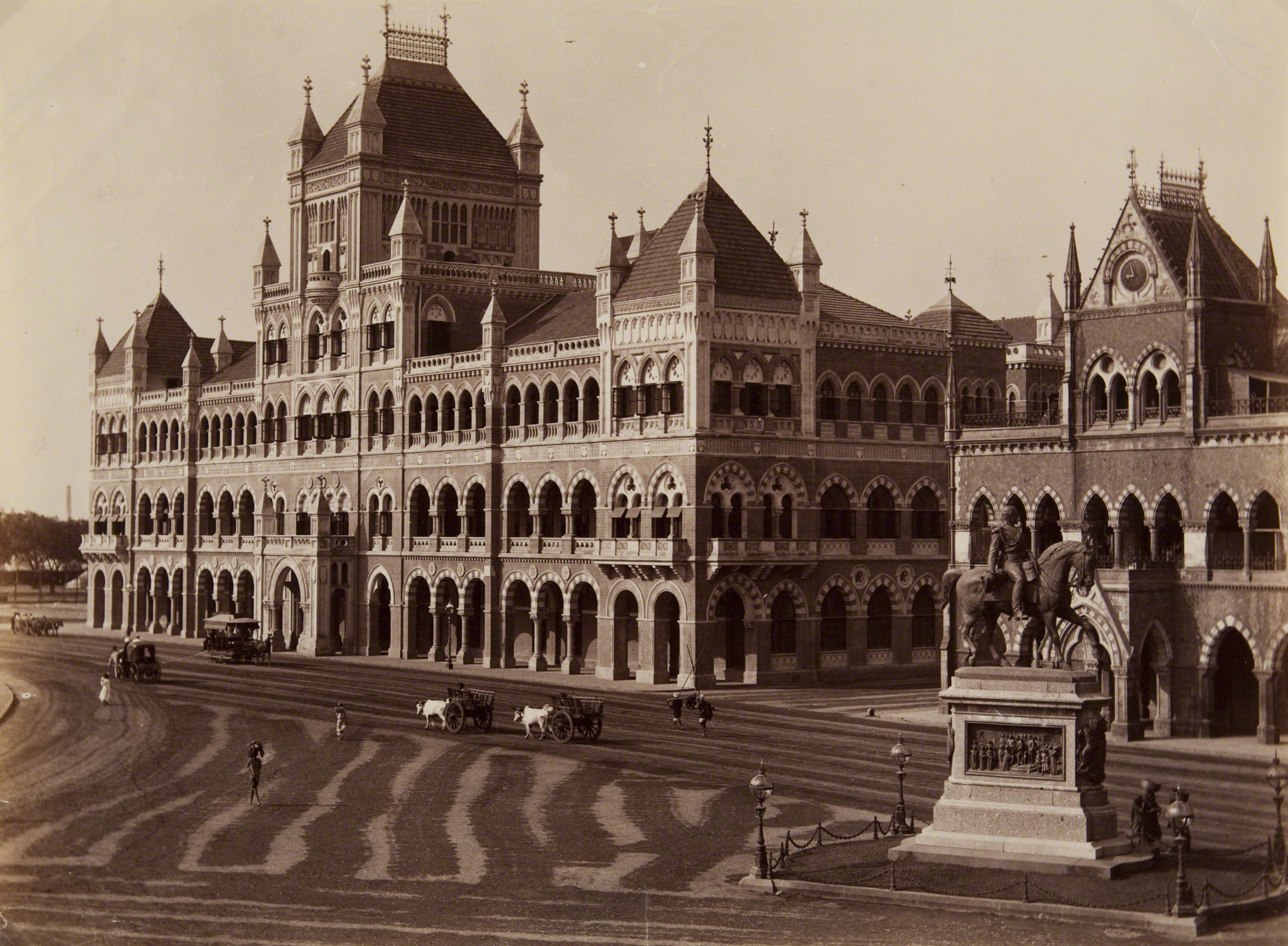 Title: Albumen print of Elphinstone College and Sassoon Library